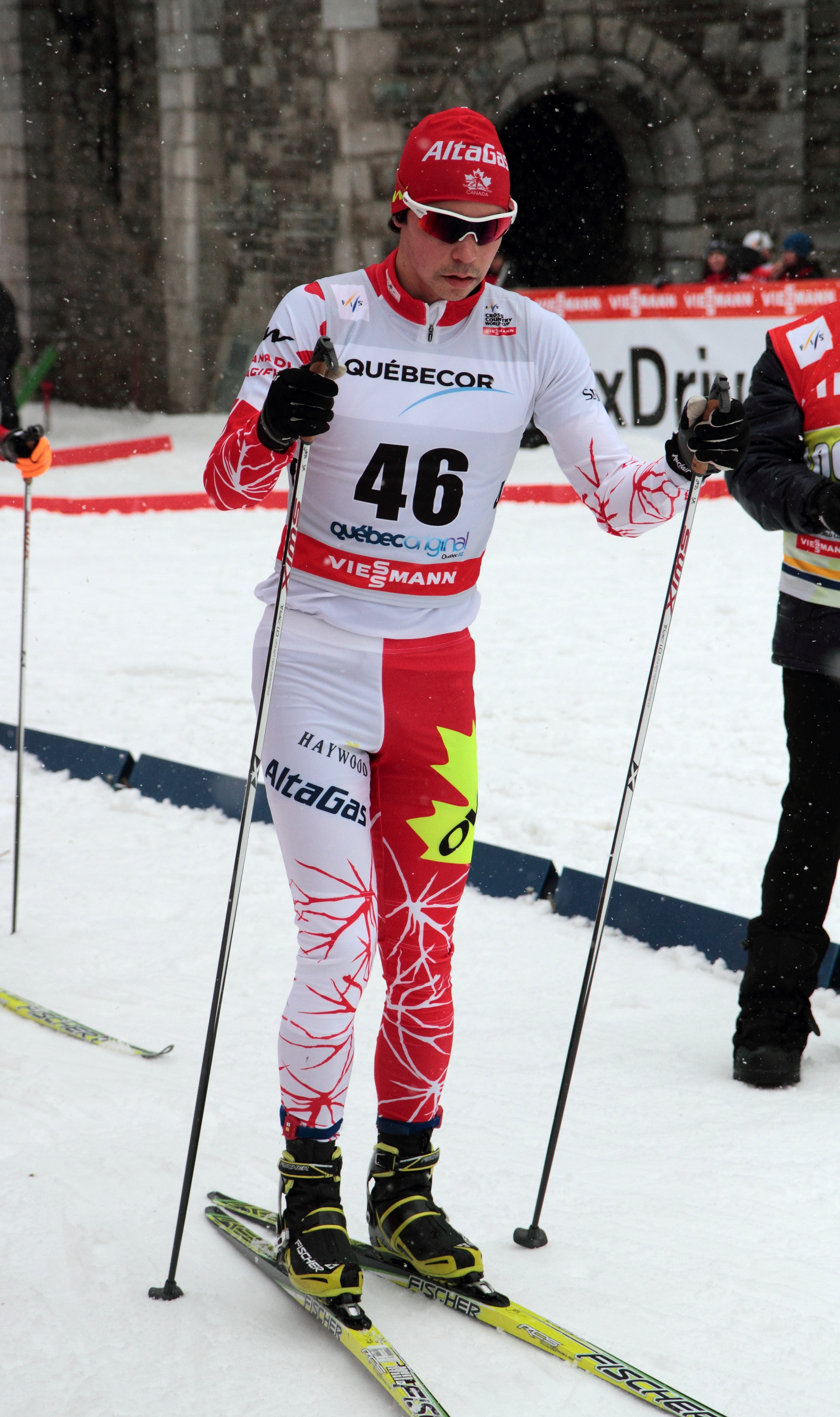 Jesse Cockney, FIS Cross-Country World Cup, 2012, Quebec, Canada